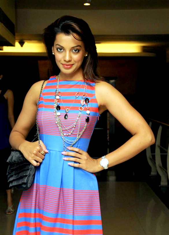 Mugdha Godse supporting Sandip Soparrkar's 'Dance for a cause'